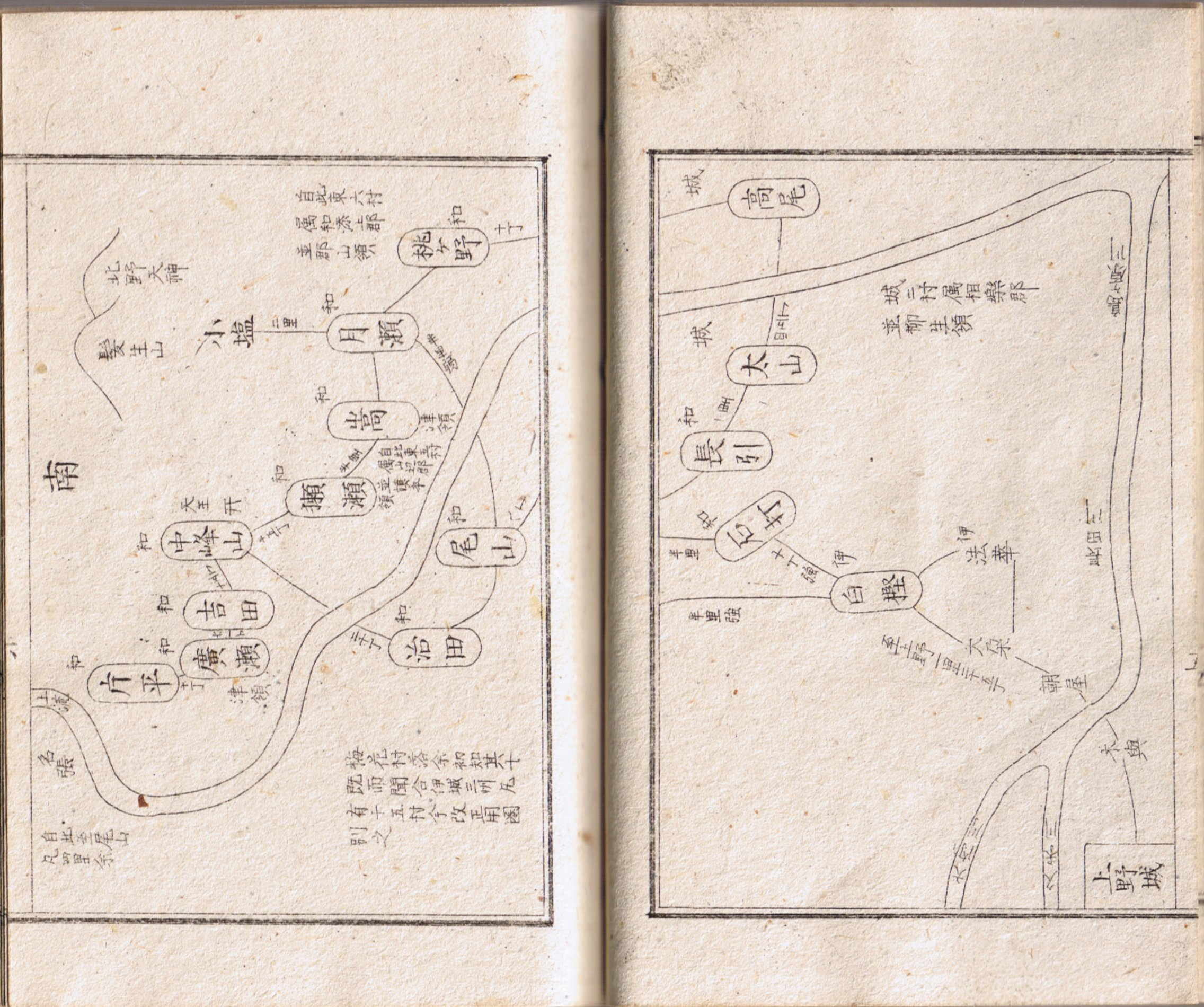 P.5 - P.6 from portable manuscript book of "Tsukigase Kisho/Getsurai Kisho No.1 (月瀬記勝) written by Saito Setsudo (斎藤拙堂)" in 1884, published by Shikada Seishichi (鹿田静七). Book size (WxHxD): 8.5cm x 12cm x 0.8cm ja: 斎藤拙堂著『月瀬記勝』上巻 携帯型写本の 5 - 6 頁、1884年（明治17年）鹿田静七刊 大きさ (幅x高x厚): 8.5cm x 12cm x 0.8cm